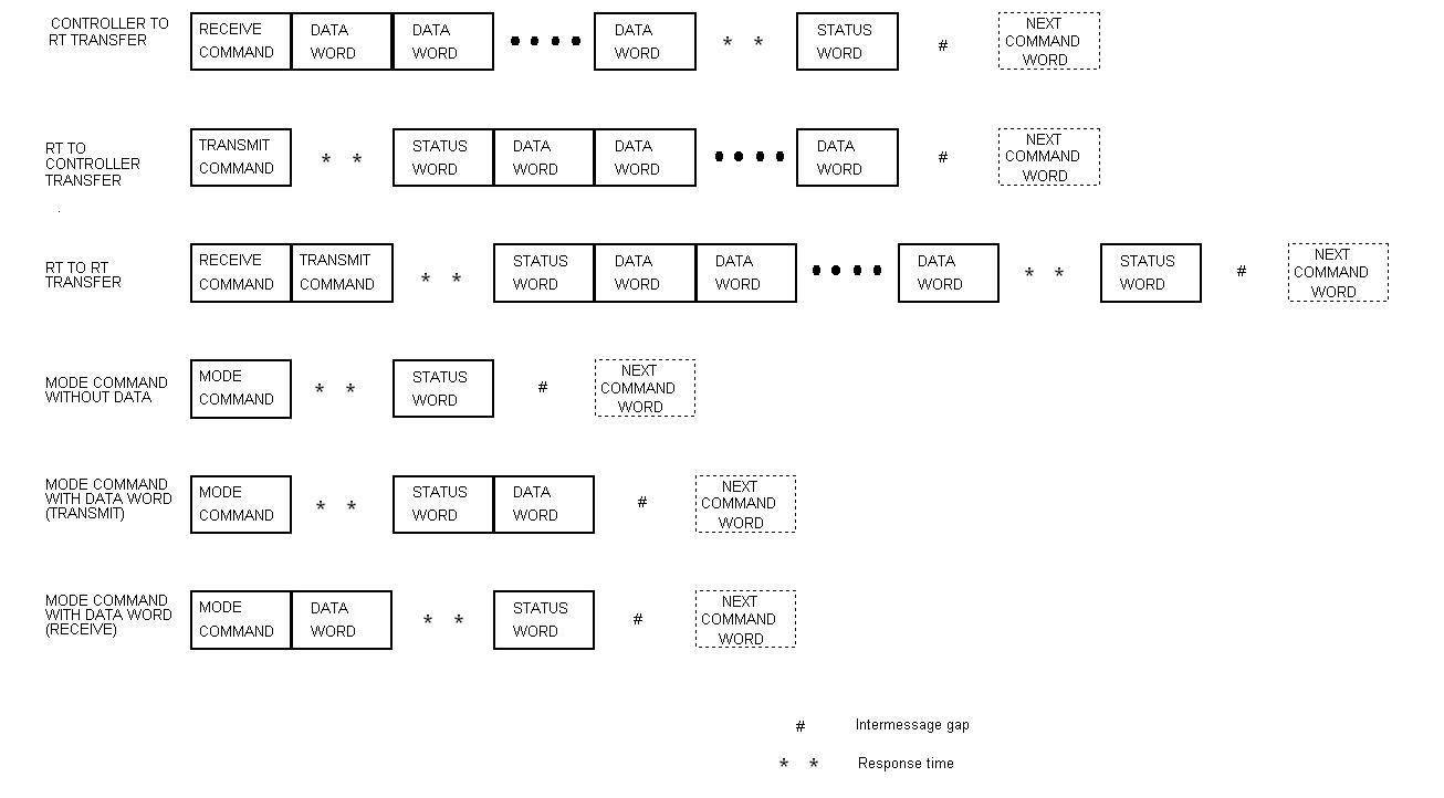 Redrawn copy of figure 6 from MIL-STD-1553B, which is copyright free anyway